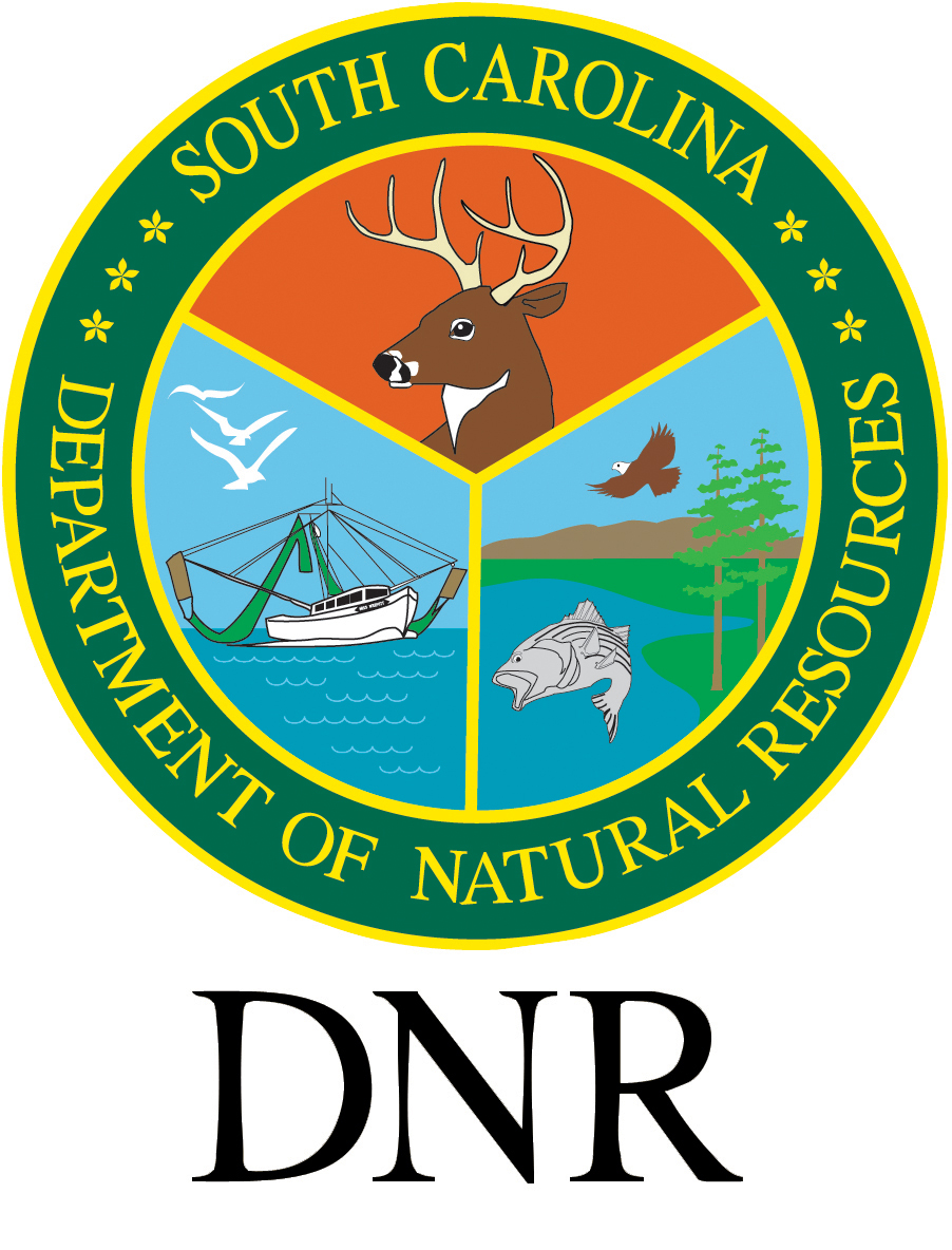 The official logo for the S.C. Department of Natural Resources (SCDNR).